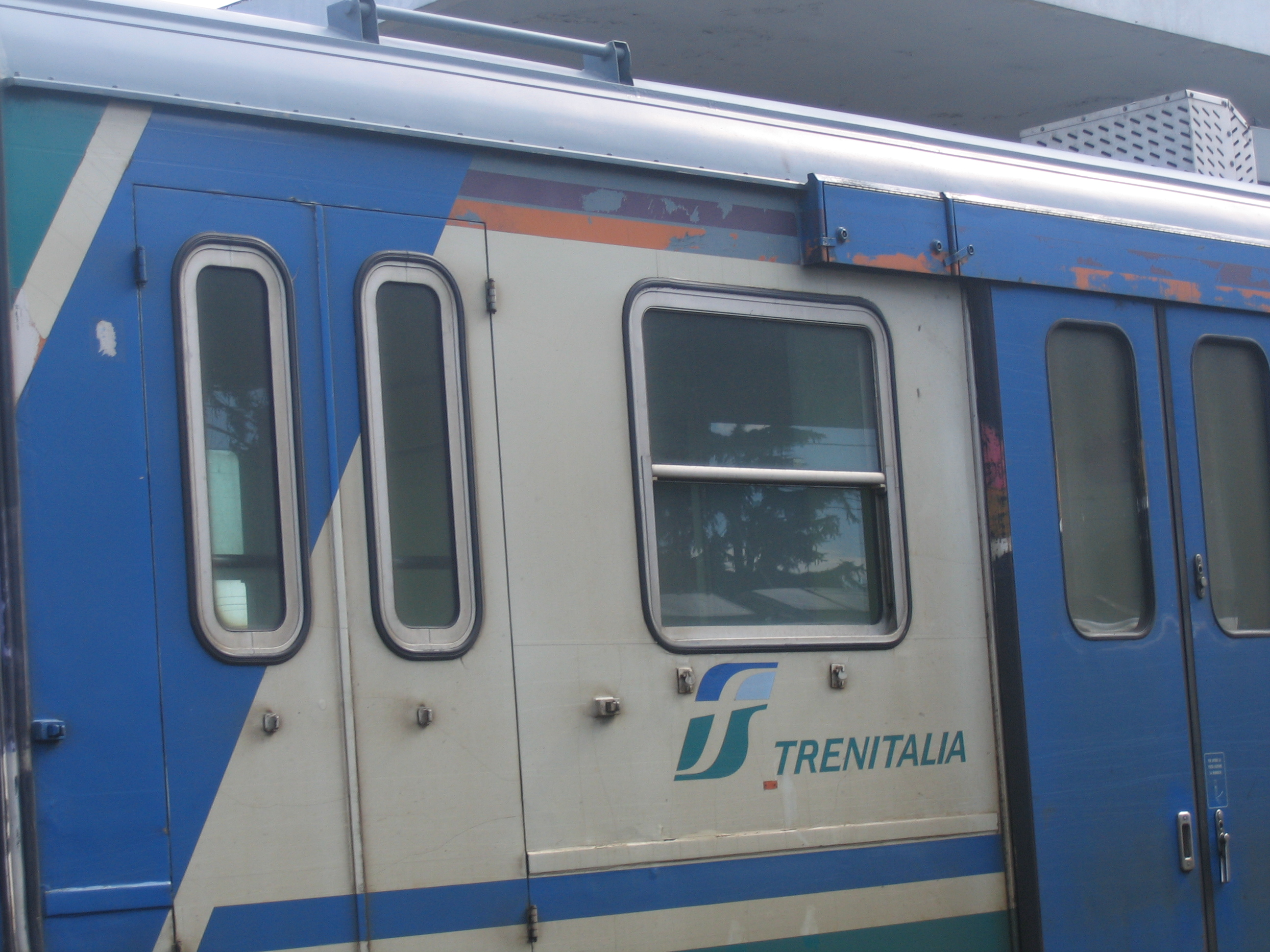 new XMPR painting vanished showing the former orange/violet/gray paintwork of the '80s on this ALe 724.005